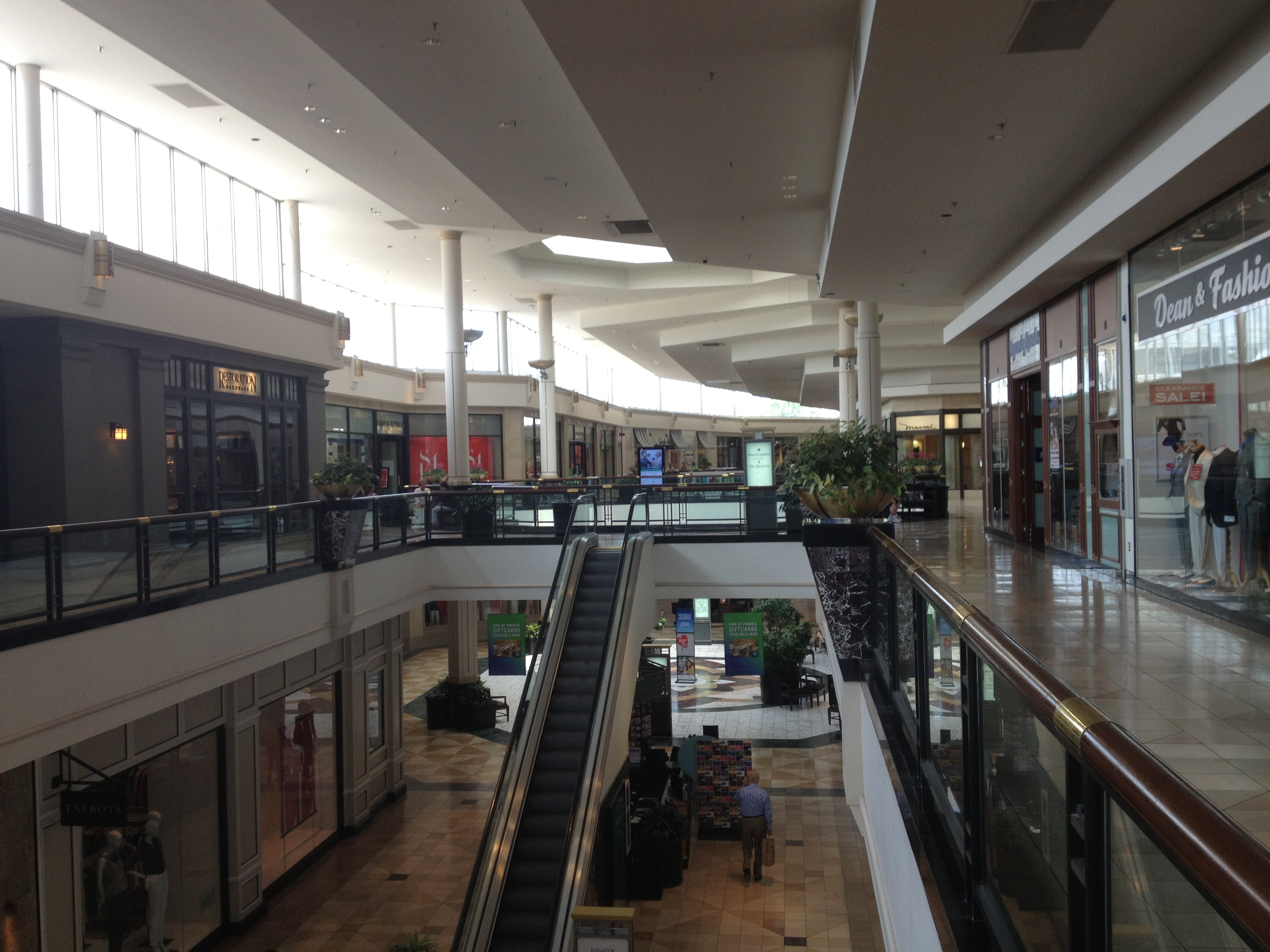 A view of the second floor of The Court at King of Prussia near Bloomingdale's.